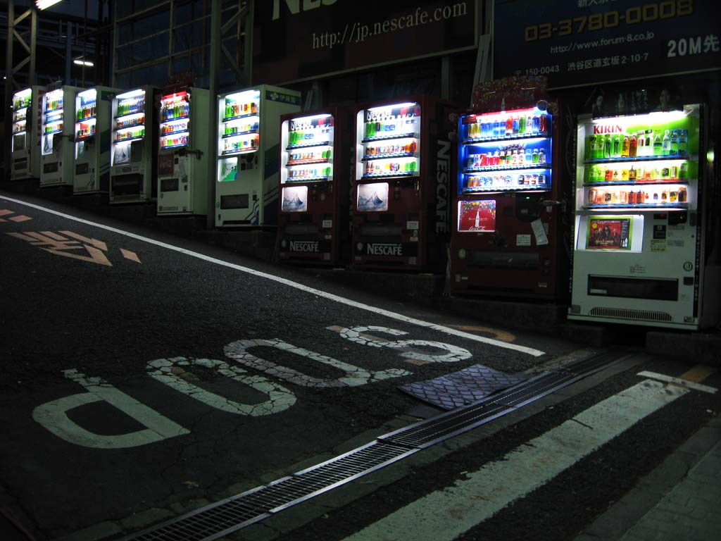 Vending machines in shibuya, japan